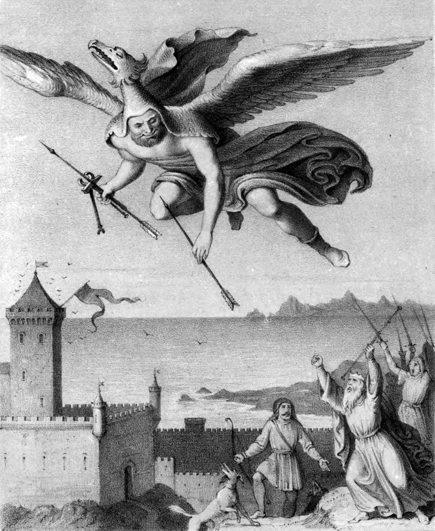 Wieland flies away in his winged coat of feathers.